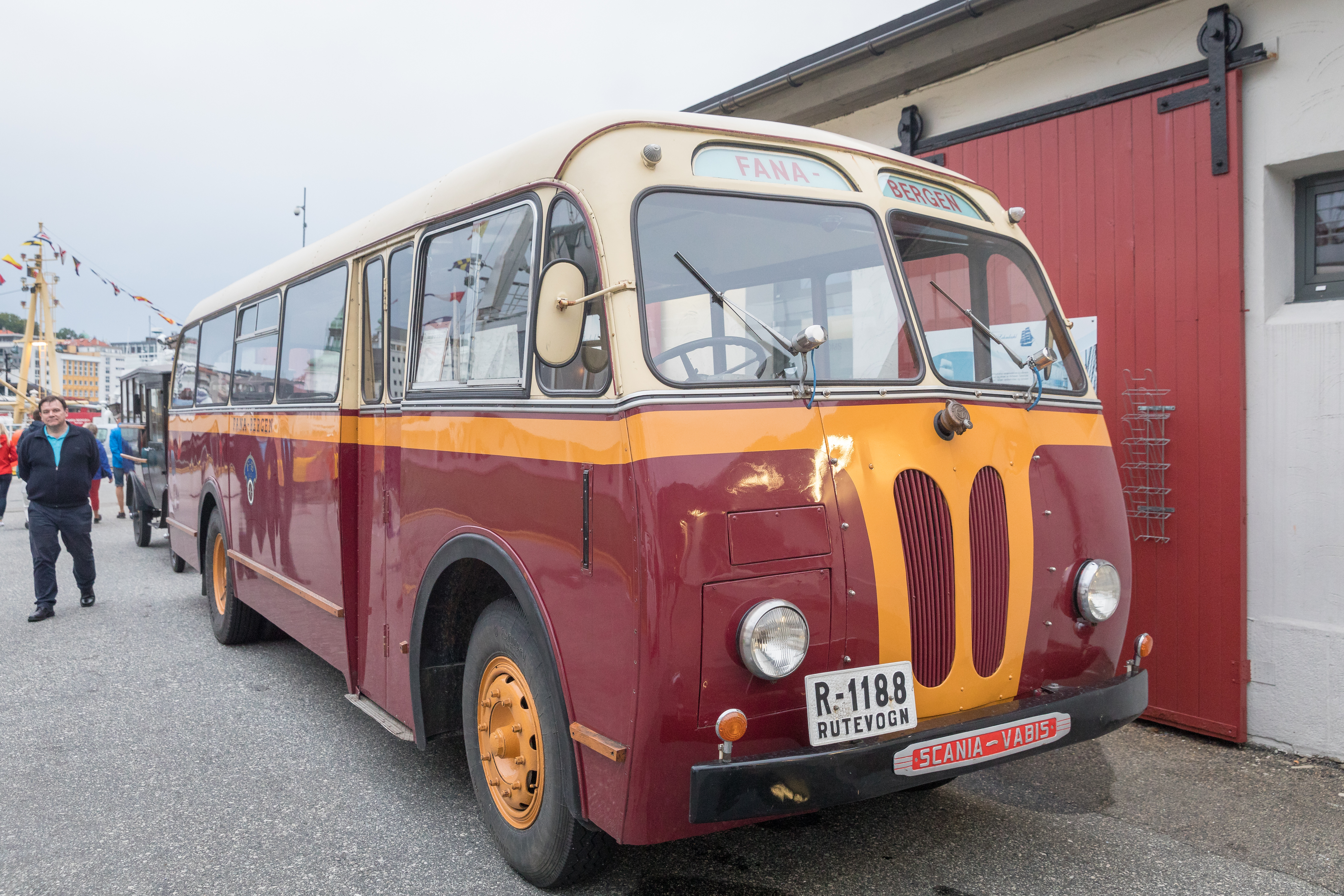 Vintage vehicles at Fjordsteam 2018. The maritime heritage festival took place between August 2 and August 5 2018 in Bergen, Norway.